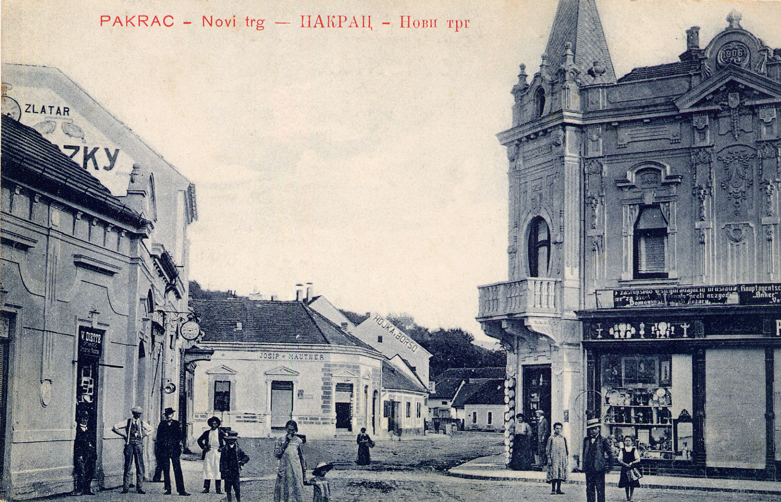 Novi trg, Pakrac, Austrohungary, 1911